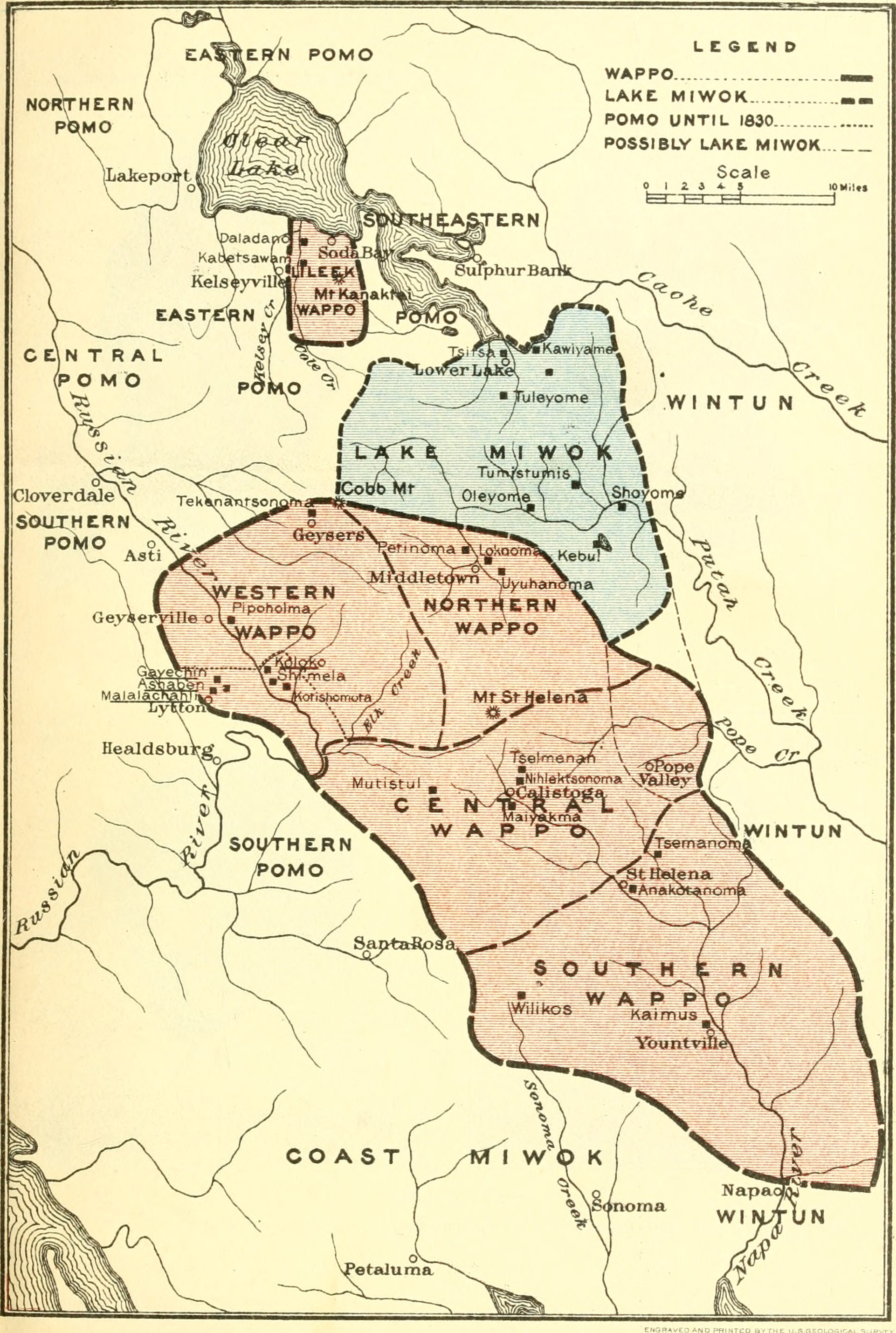 Title: Bulletin Year: 1901 (1900s) Authors: Smithsonian Institution. Bureau of American Ethnology Subjects: Ethnology Publisher: Washington : G. P. O. Text Appearing Before Image: BUREAU OF AMERICAN ETHNOLOGY BULLETIN 78 PLATE 27 Text Appearing After Image: SETTLEMENTS OF THE WAPPO AND LAKE MIWOK